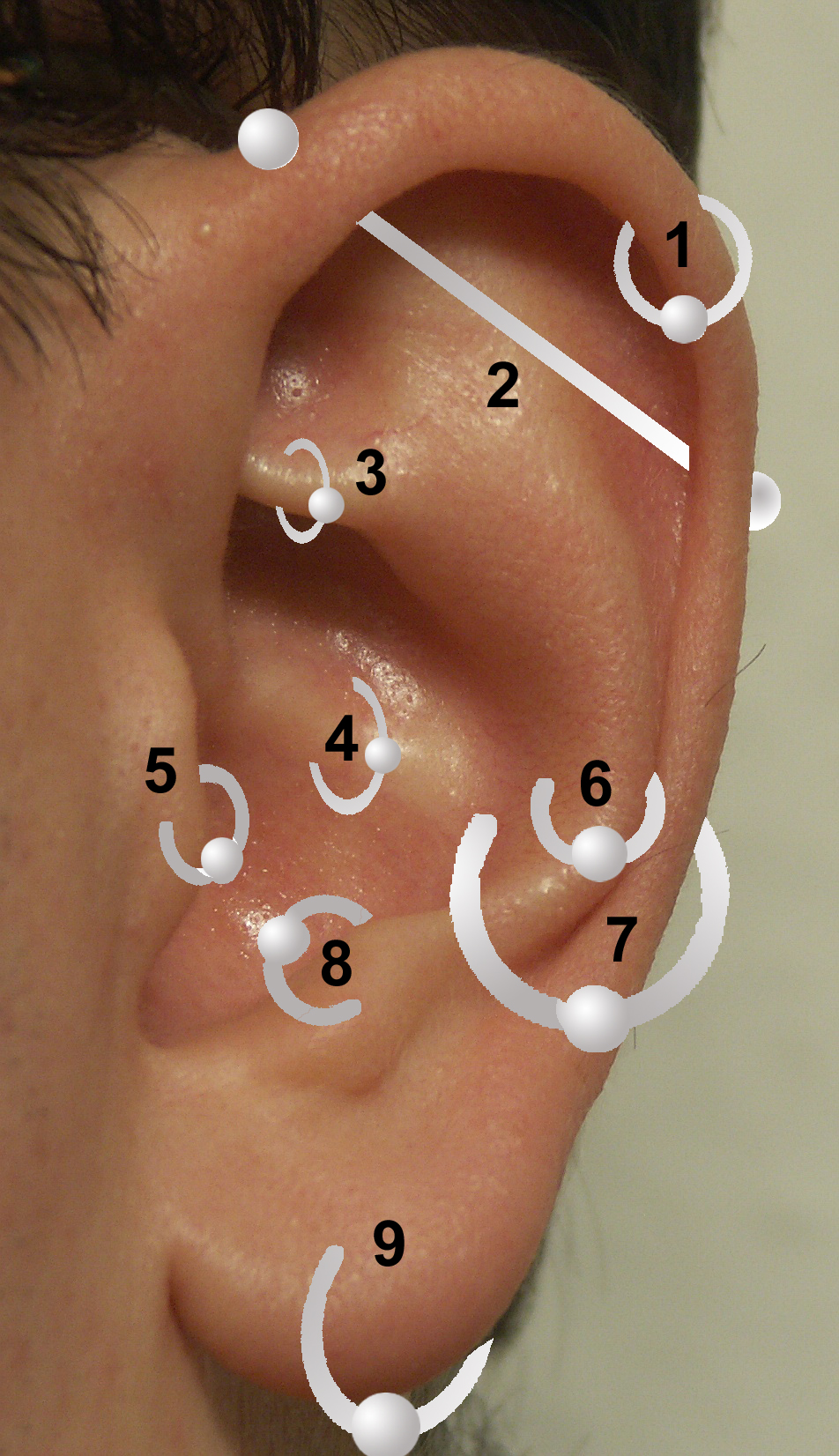 The positions of piercings on a human ear 1 = Helix 2 = Industrial 3 = Rook 4 = Daith 5 = Tragus 6 = Snug 7 = Conch 8 = Anti-Tragus 9 = Lobe